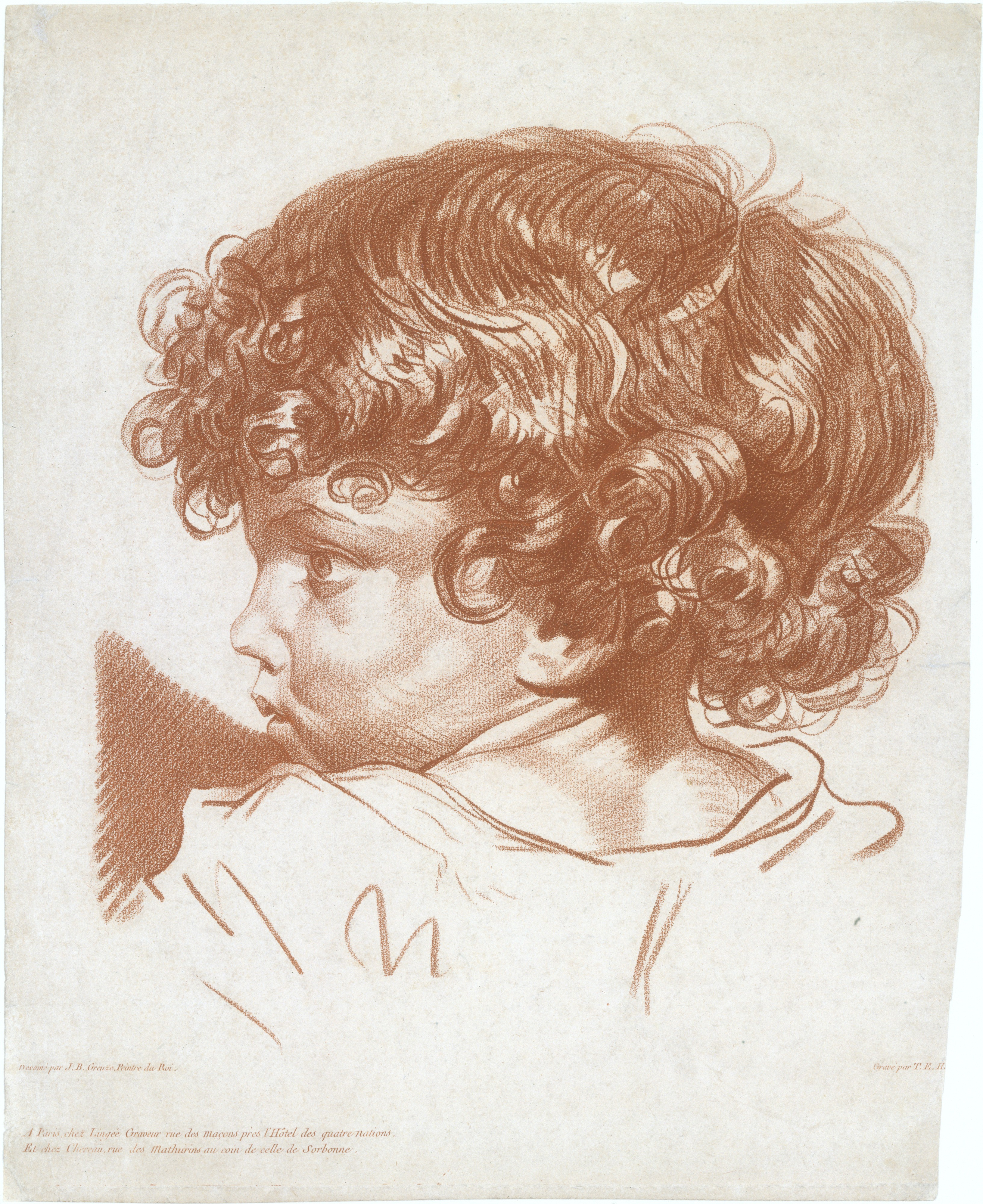 Print; Prints